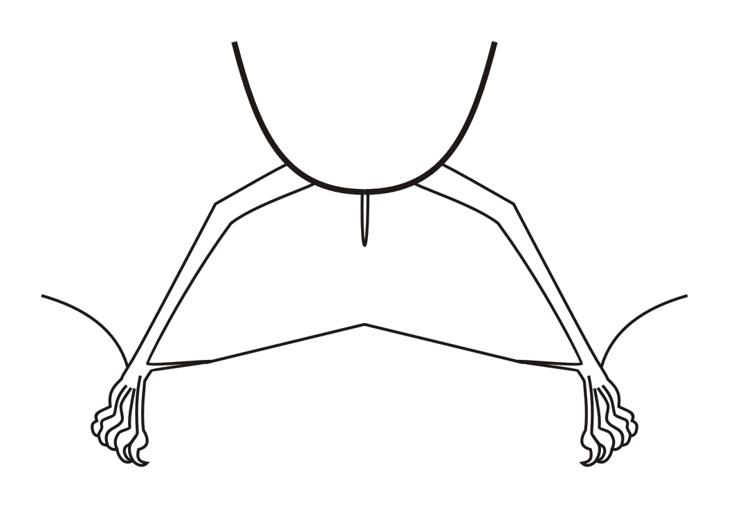 According to Husson, 1962 shows interfemoral membranes, calcar, feet and tail in bats of genus Carollia